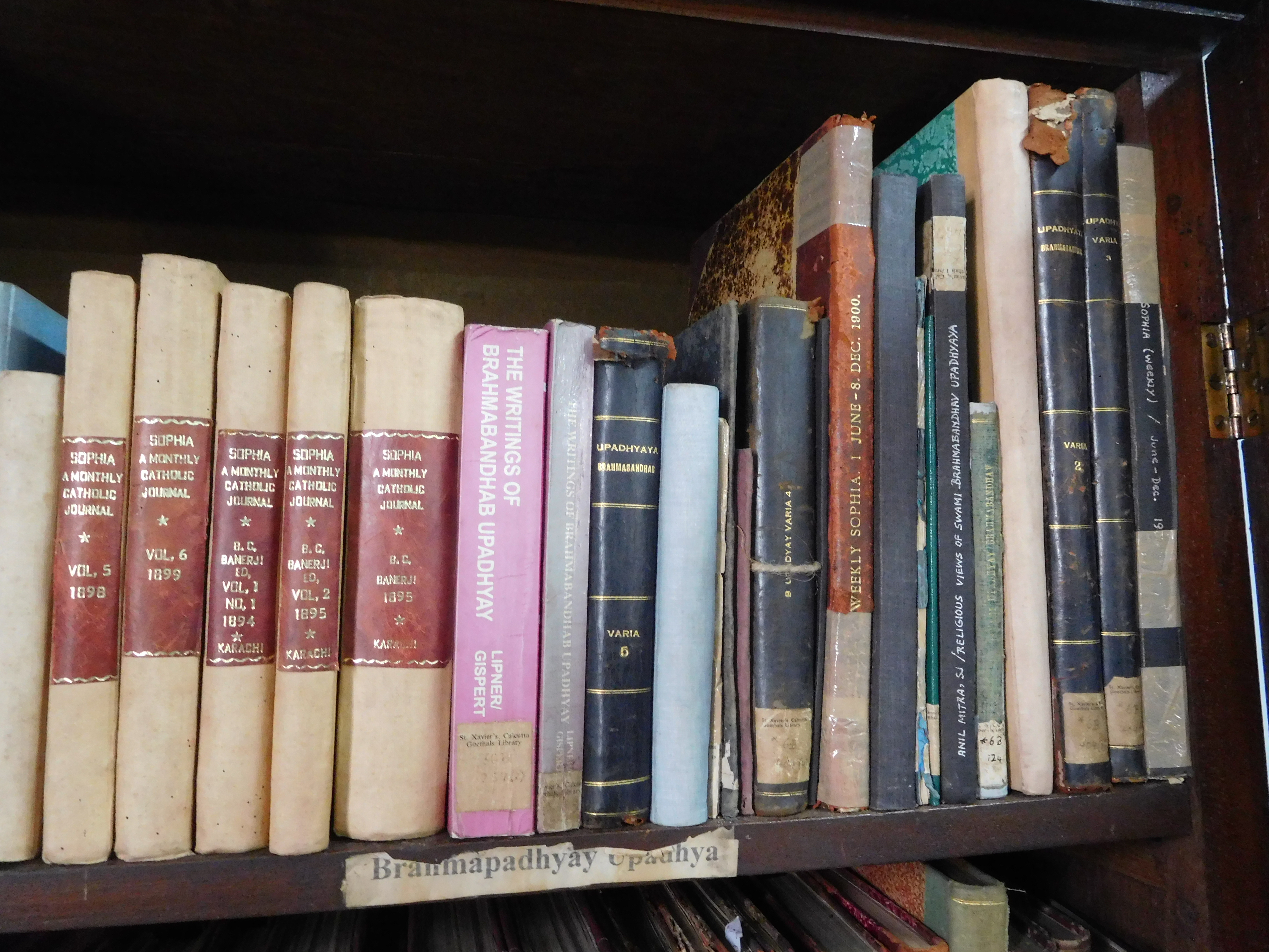 The collected writings of Bramabandhav Upadhyay (mostly articles in a variety of small journals) can be found in the Goethals library of Calcutta